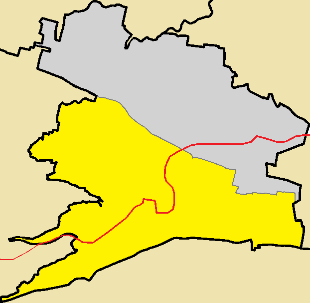 Agios Georgios in Ayios Dhometios.